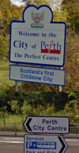 Road signs within Perth, Scotland, using the word 'city'.